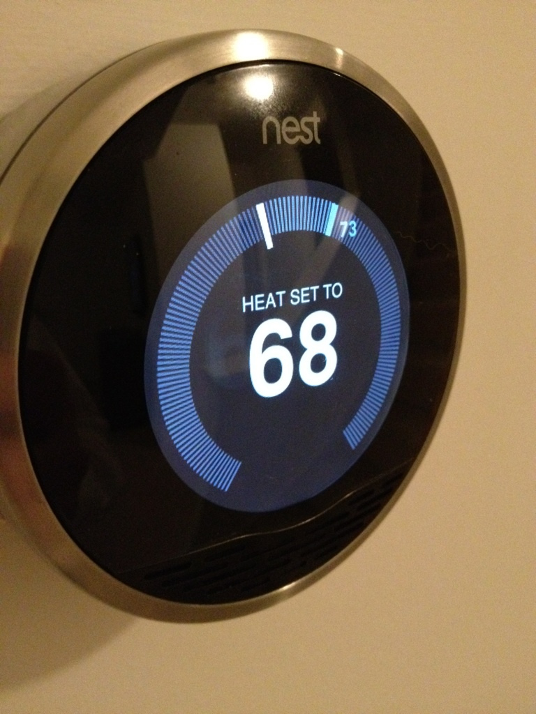 Image of an installed Nest Diamond thermostat